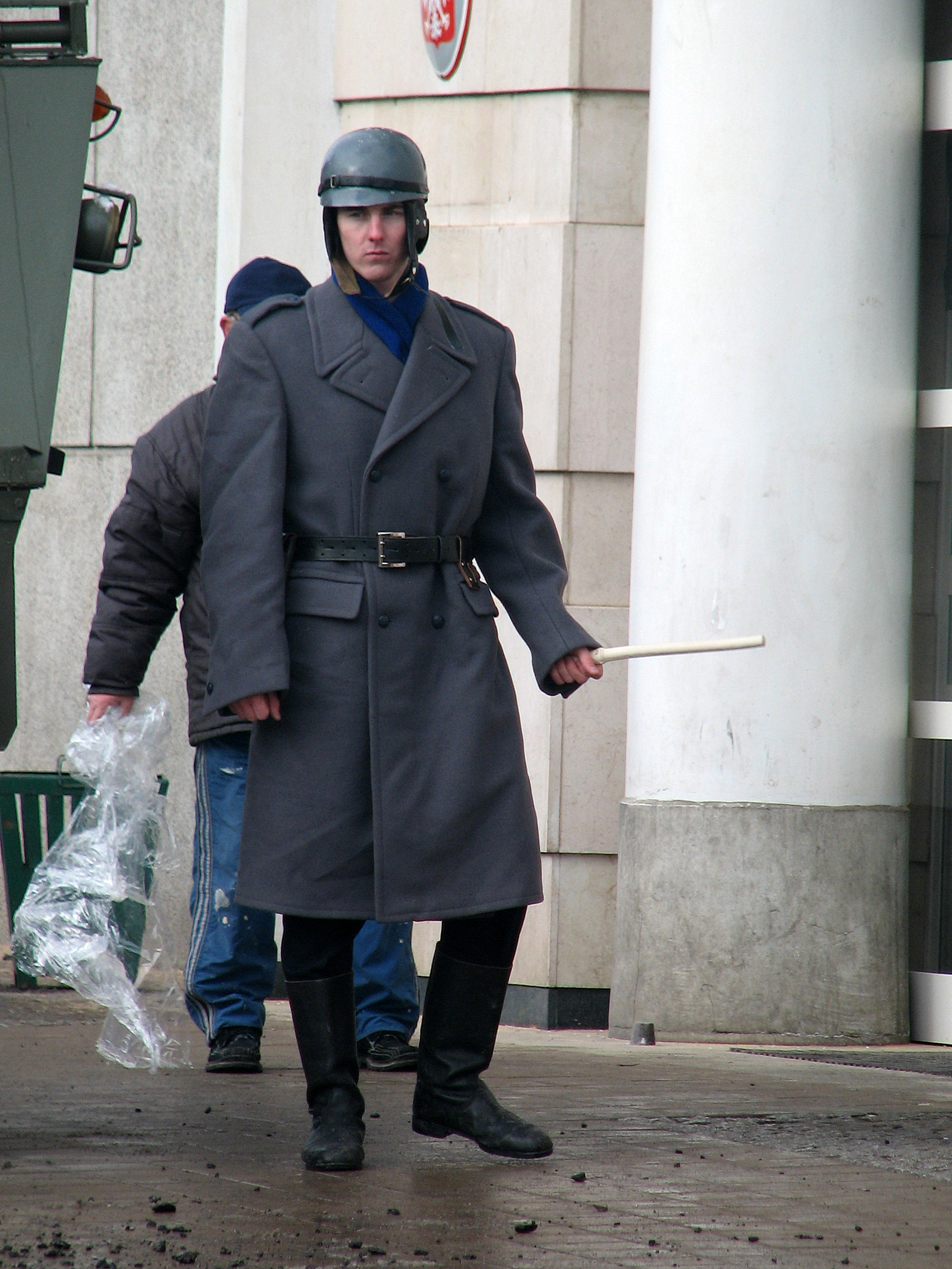 Filming of "Black Thursday" at intersection of ulica Świętojańska and Aleja Józefa Piłsudskiego in Gdynia. People on this picture are actors, extras, and film crew. "Black Thursday" is a film about Polish 1970 protests.